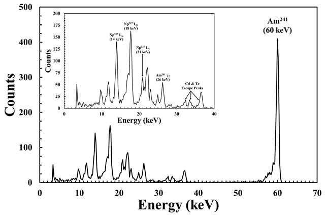 The figure shows a 241-Am gamma-ray spectrum taken with the small pixel, CdTe-based, HEXITEC X-ray imaging detector system.